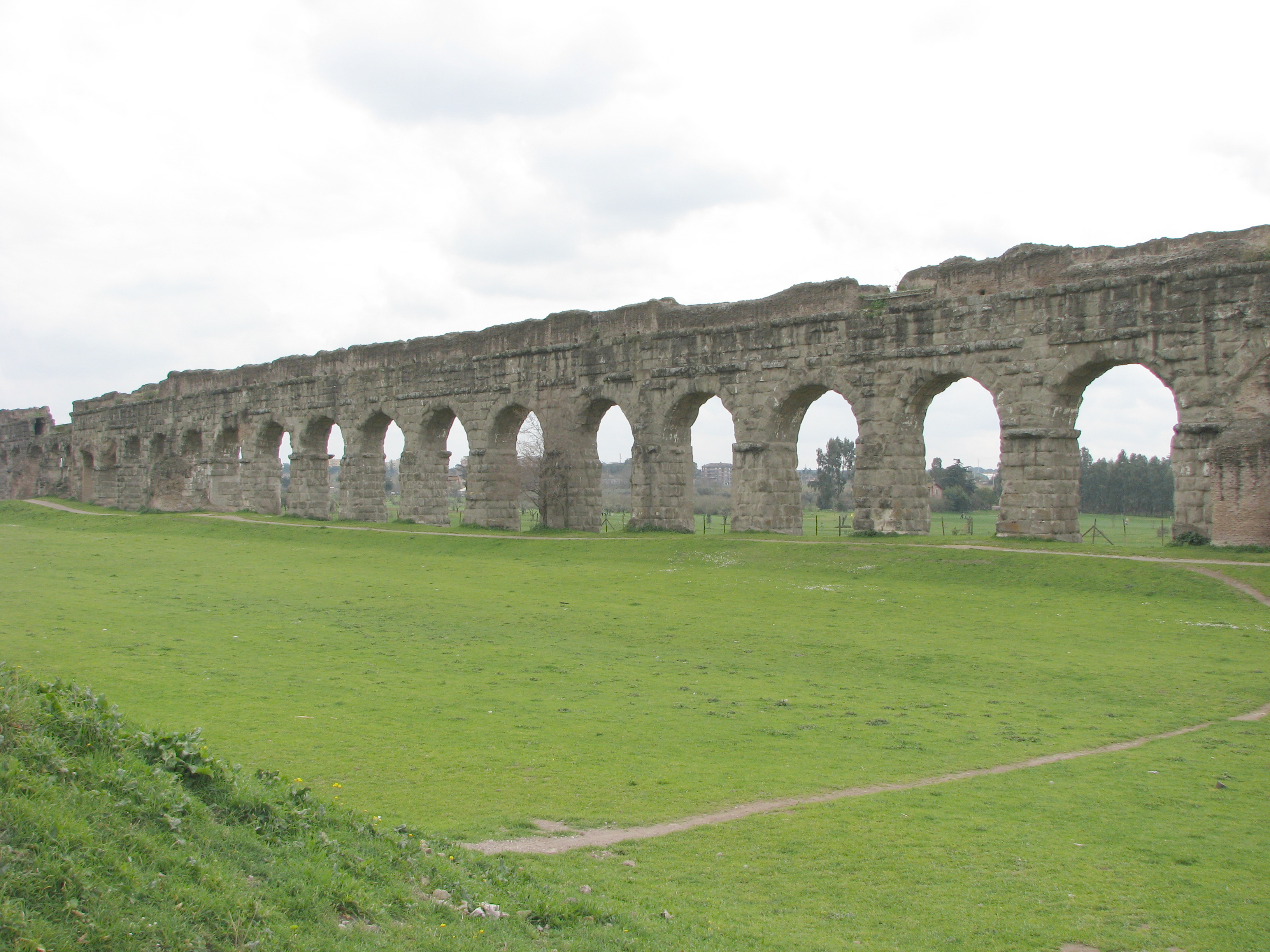 Panoramic view of the Aqua Claudia near Rome, the longest unbroken stretch of an above-ground aqueduct near Via Lemonia, Rome with a length of 1375 m. On top of the Aqua Claudia is the Anio Novus channel